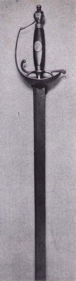 Es la espada que utilizó Pedro Andrés García en las invasiones inglesas, actualmente en poder de Martín García-Mansilla